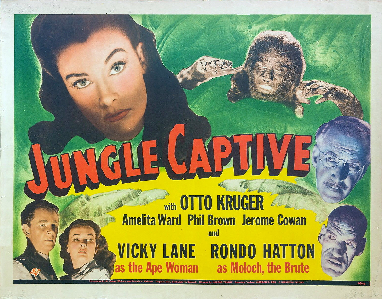 Poster for the 1945 film Jungle Captive.. The item has no copyright markings on it as can be seen in the links above.